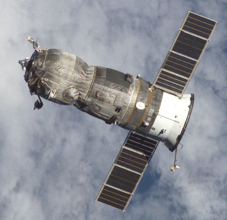 ISS007-E-13876 (27 August 2003) --- Backdropped against a blue and white Earth, an unpiloted Progress 10 (also called Progress M-47) supply vehicle departs from the Zvezda Service Module’s aft docking port on the International Space Station (ISS) carrying its load of trash and unneeded equipment to be deorbited and burned up in the atmosphere. As the Progress undocked, the ISS was flying 240 statute miles over eastern China. The undocking clears the way for the arrival of a new Progress 12, filled with fresh supplies, which is planned to dock to the Station at 10:45 p.m. (CDT) on August 30, 2003.